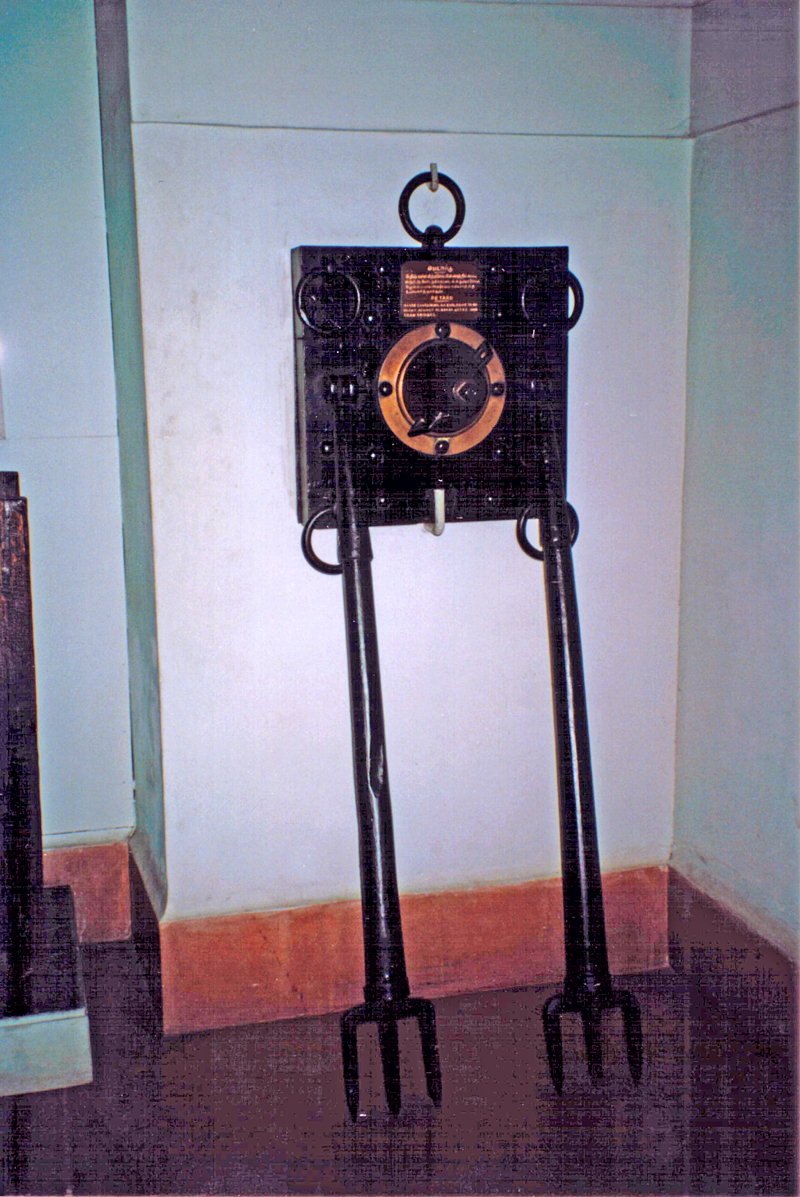 A 19th Century British petard in the Museum of Madras. Photographed by Gaius Cornelius in 1995.